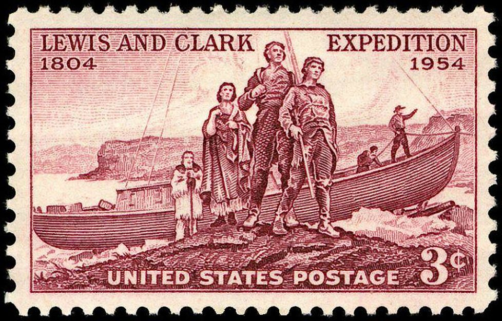 U.S. Postage: Lewis and Clark Expedition, 1954 Issue-3c.